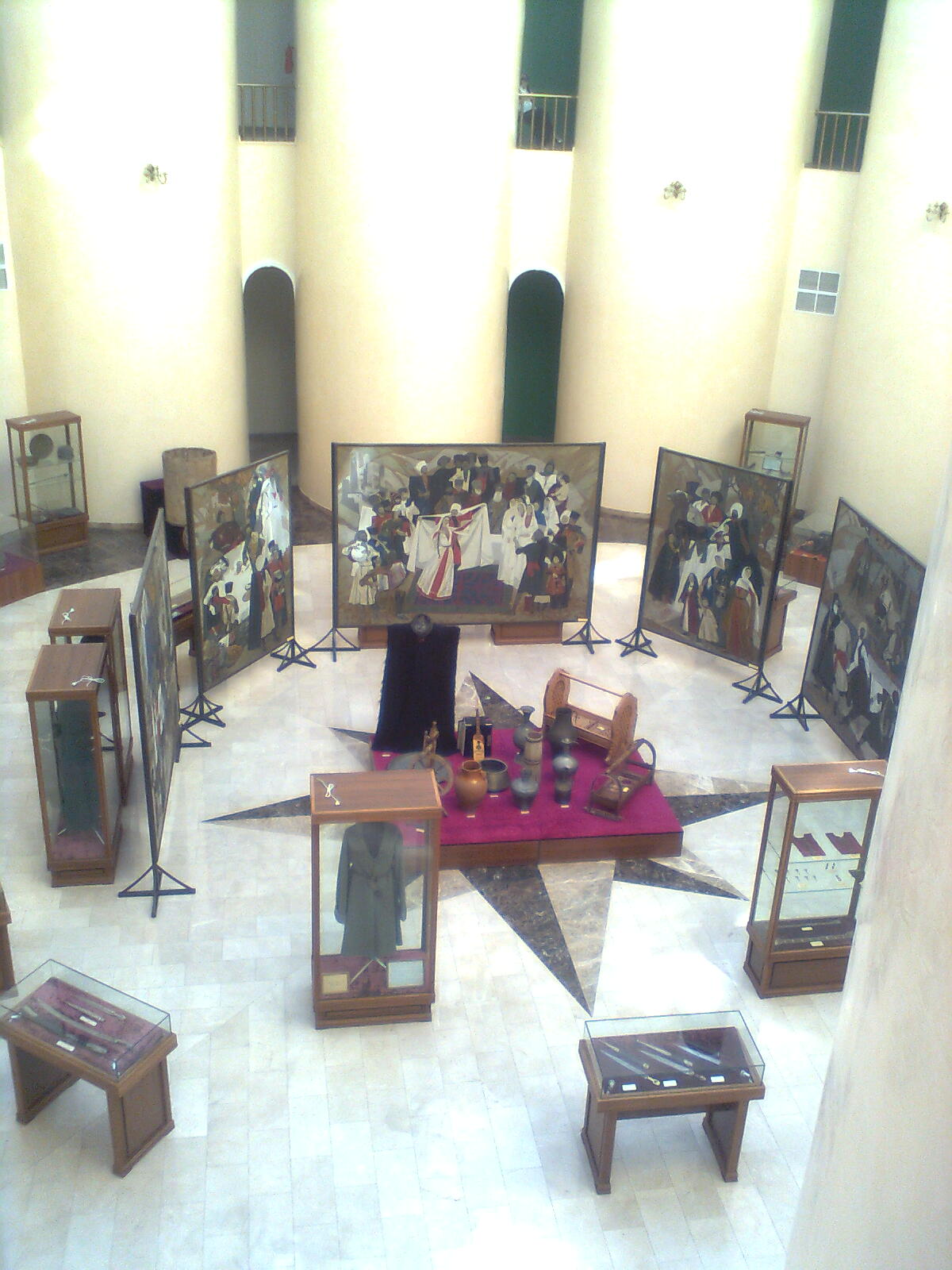 Central hall of the Chechen National Museum